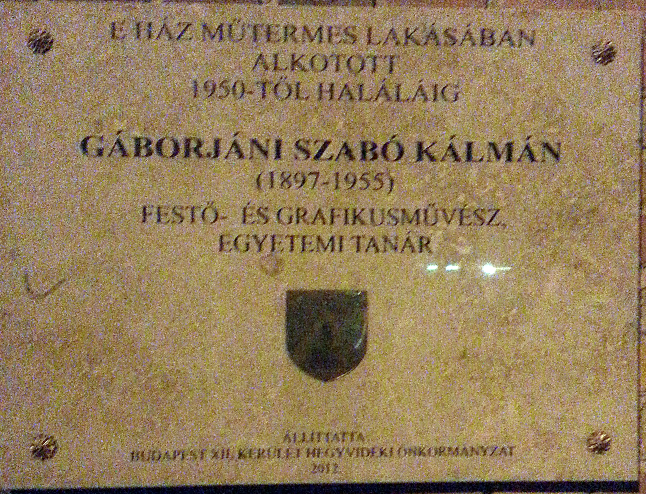 Kálmán Gáborjáni Szabó commemorative plaque in Budapest District XII, Kiss János altábornagy Street No 34